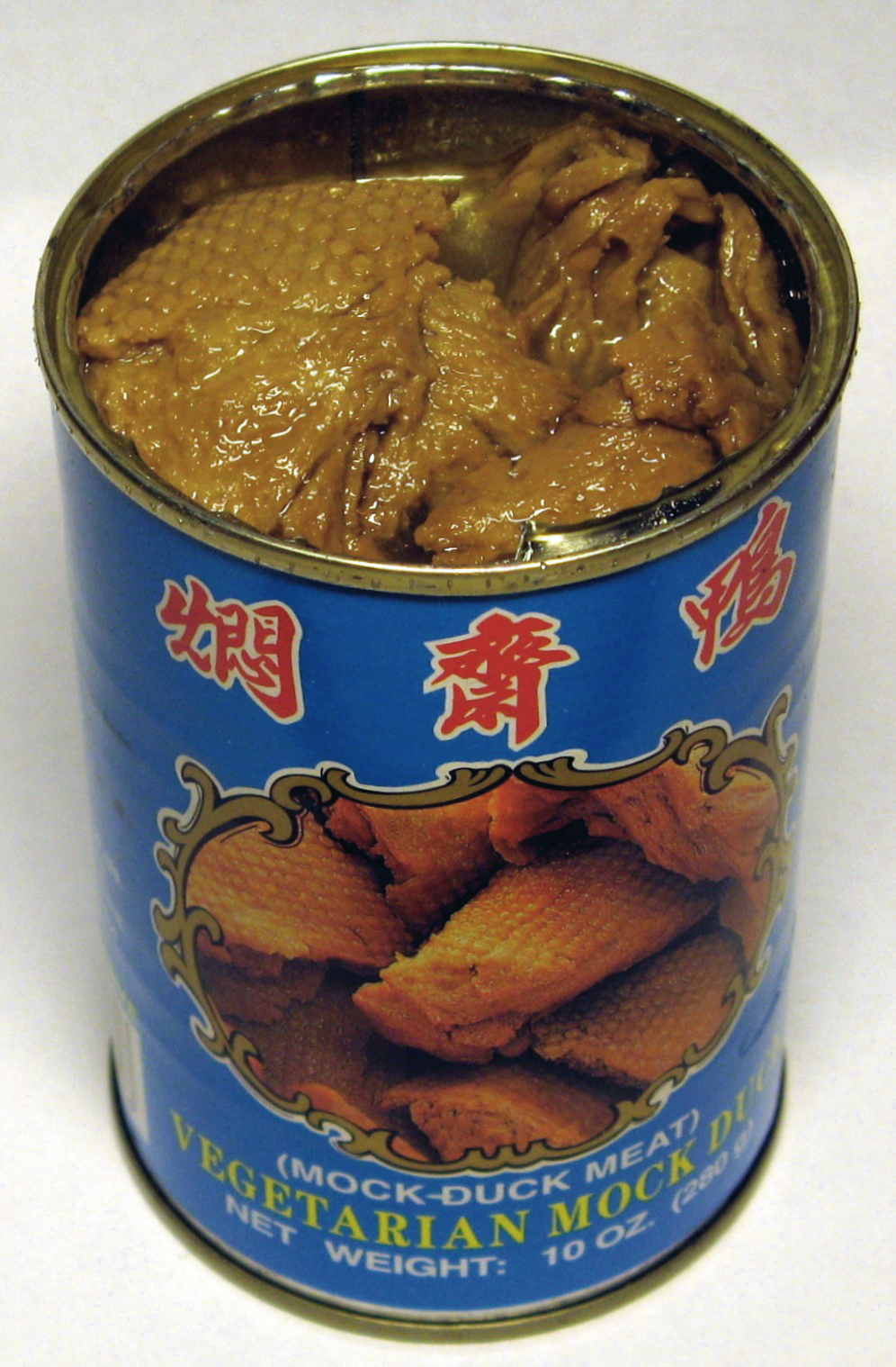 Opened can of vegetarian "mock duck", made of fried wheat gluten (alias Seitan) in a brine with soy sauce, sugar, salt, soy bean oil. Product of Taiwan ("Wu Chung" brand). This can was purchased in an Asian supermarket in Germany.